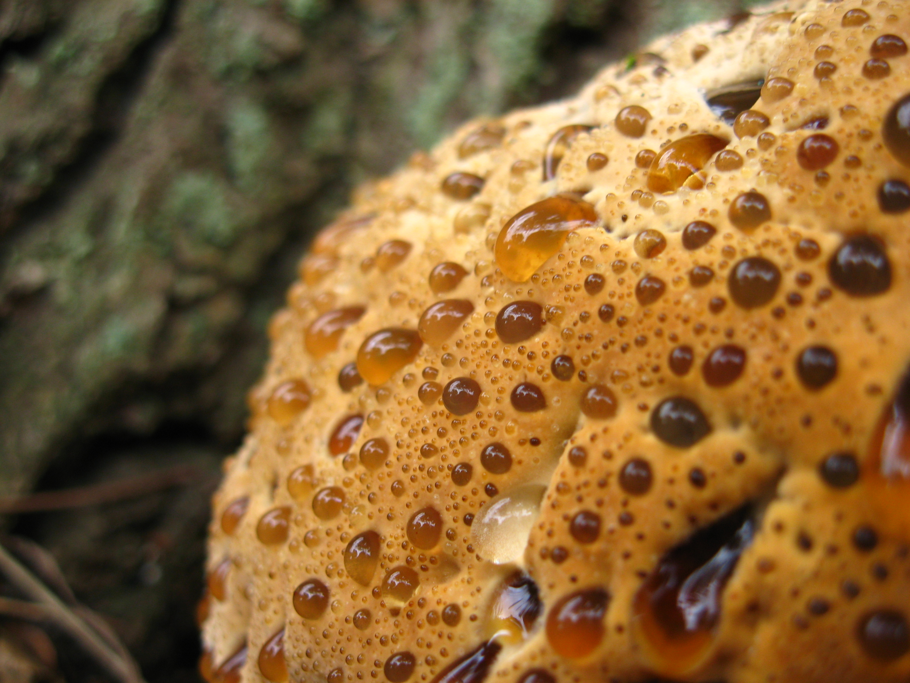 Close-up photograph of fungus species Inonotus dryadeus and its secretions.